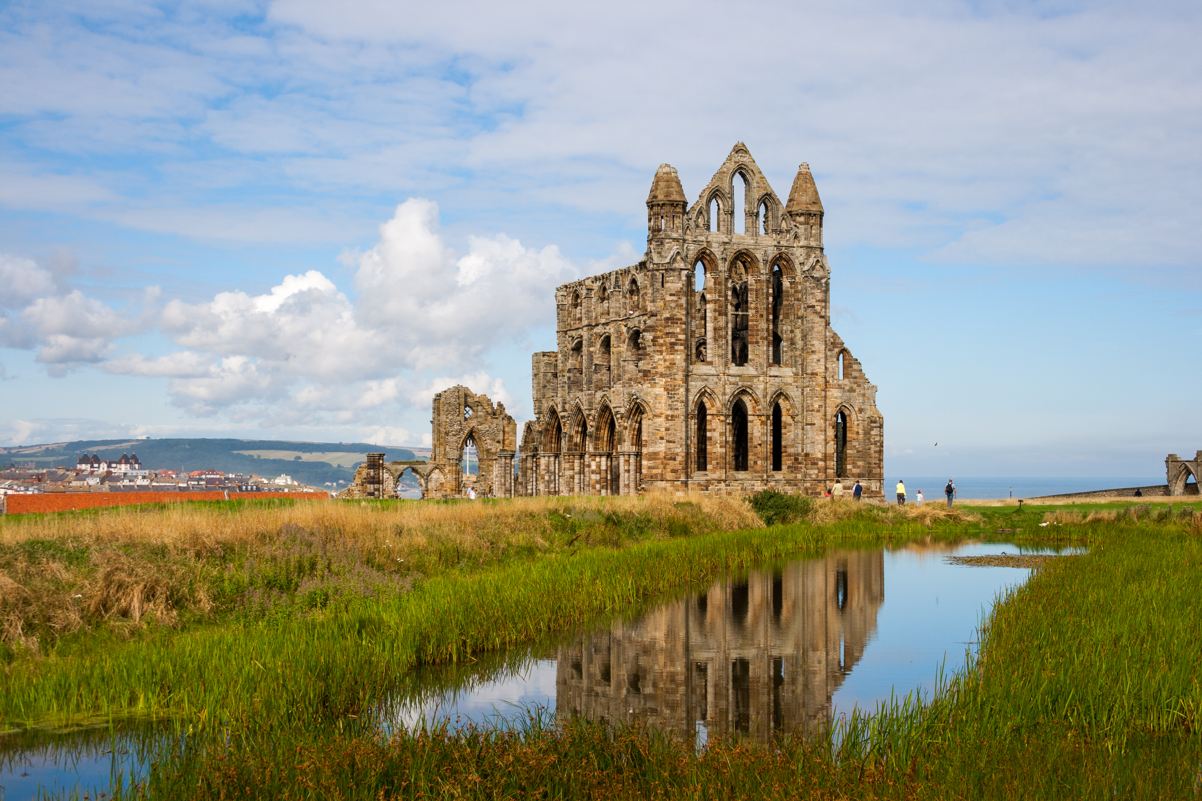 Whitby Abbey from across the pond